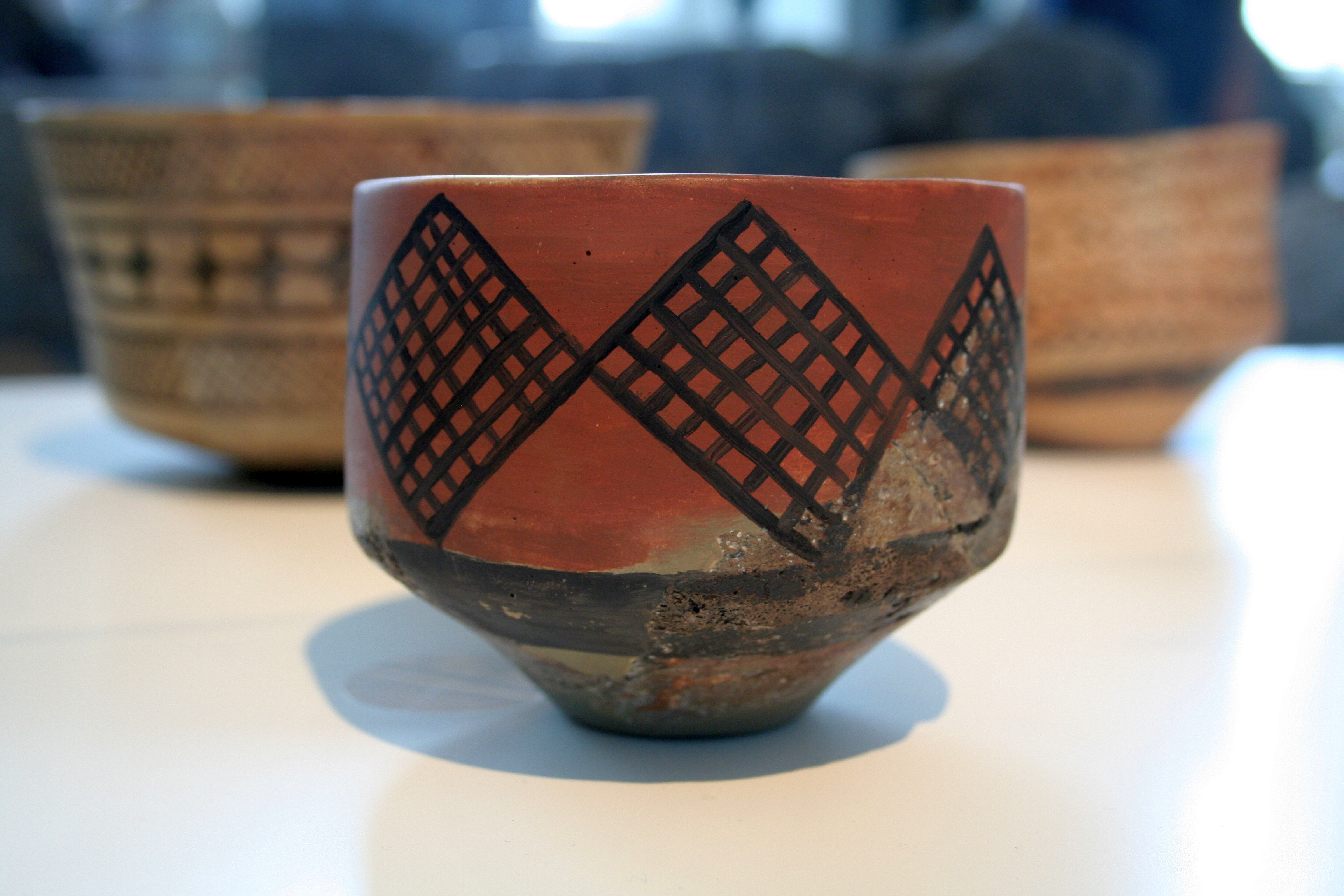 Exhibition "Die geretteten Götter aus dem Palast vom Tell Halaf" (The rescued gods from the palace of Tell Halaf), Pergamon Museum, Berlin